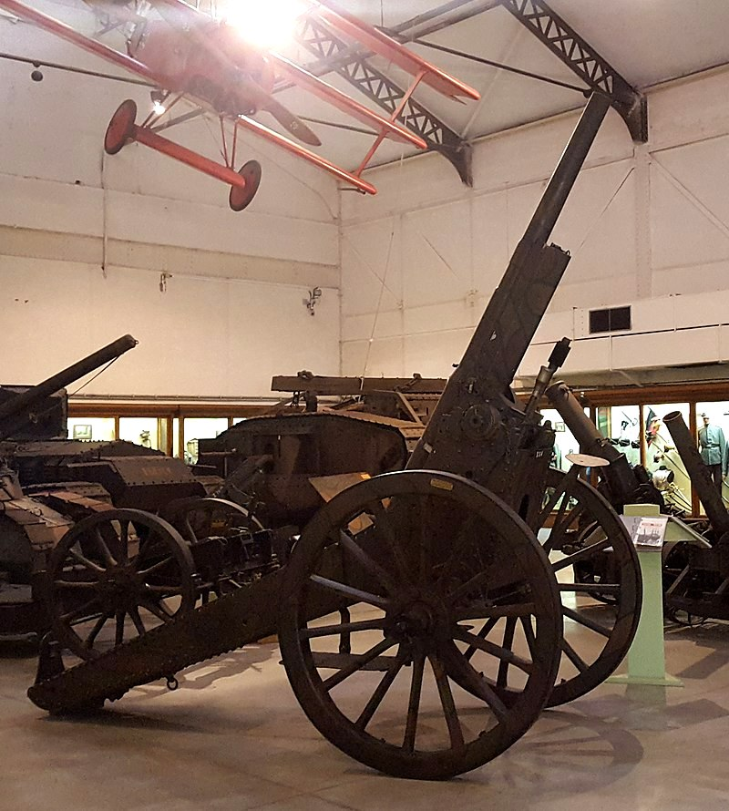 interior of the Royal Museum of the Armed Forces and of Military History during Wiki Loves Art, Brussels, Belgium